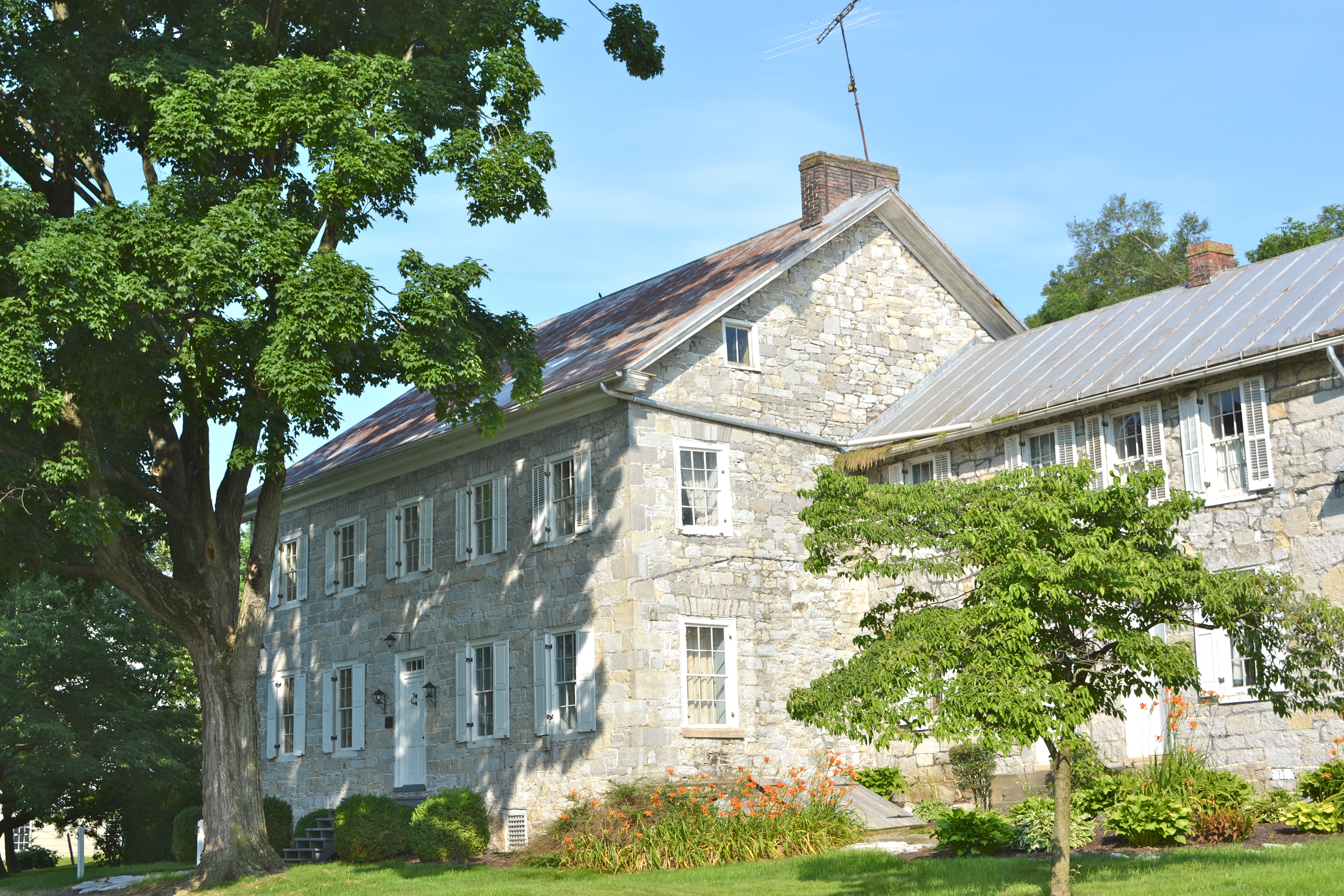 Culbertson-Harbison Farm listed on the NRHP on June 27, 1980 (#80003499) Located south of Nyesville on Nyesville Road, in Greene Township, Franklin County, Pennsylvania, a bit east of Letterkenny Army Depot. 40°01′02″N 77°37′44″W